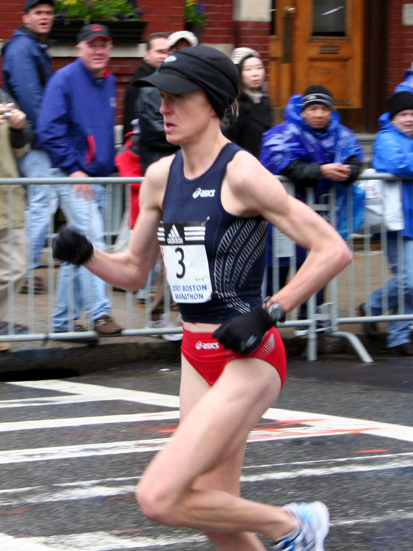 Deena Kastor at the 2007 Boston Marathon